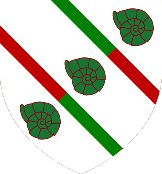 Shield of arms of The Lord Brown of Madingley